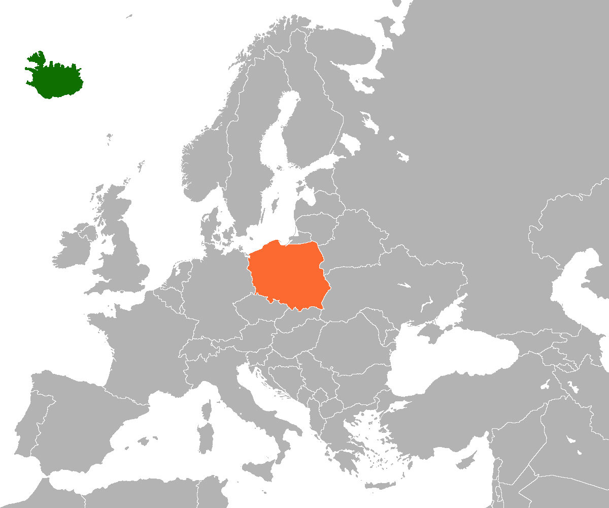 Map showing locations of both Iceland and Poland